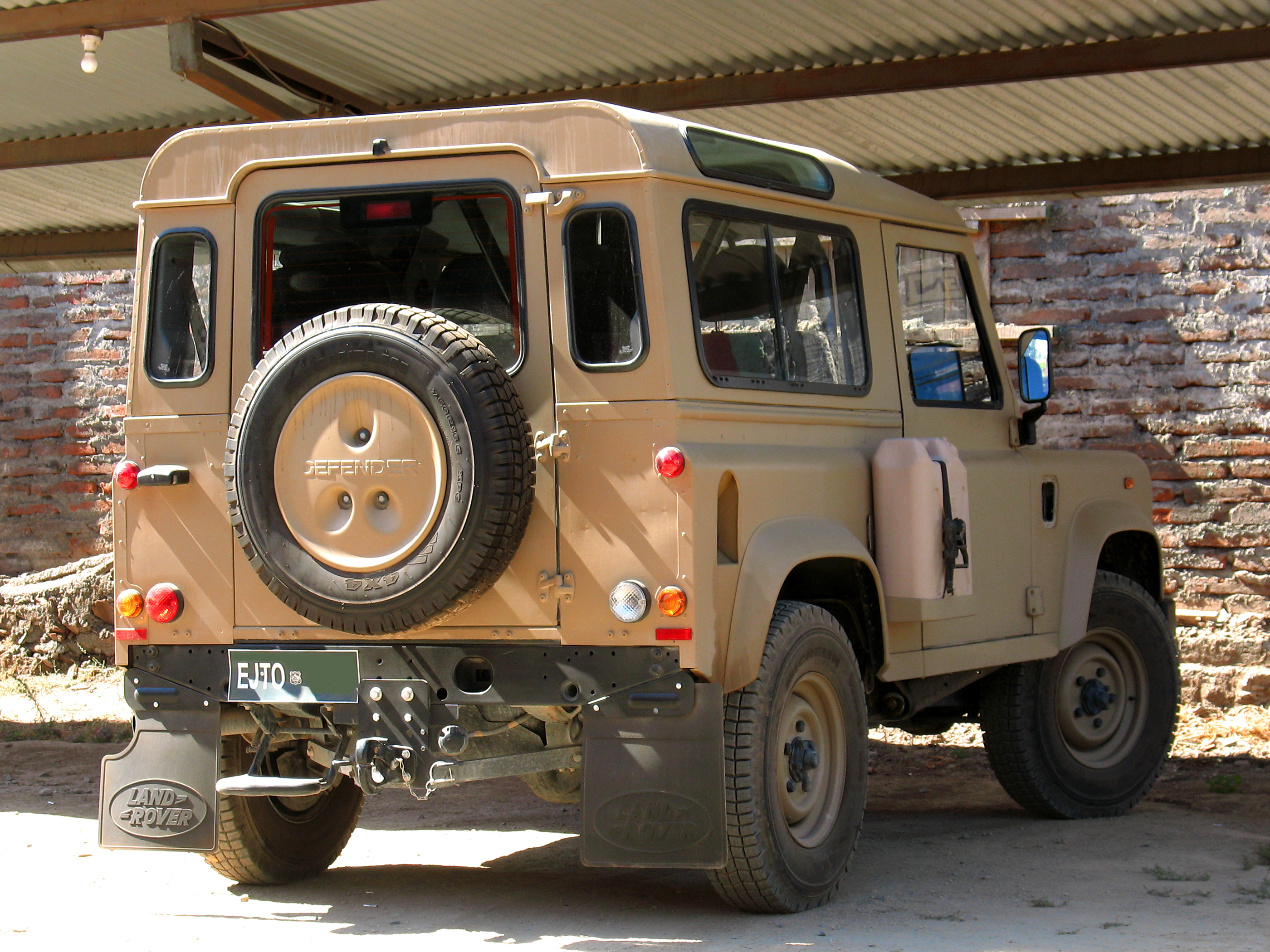 chilean army LR